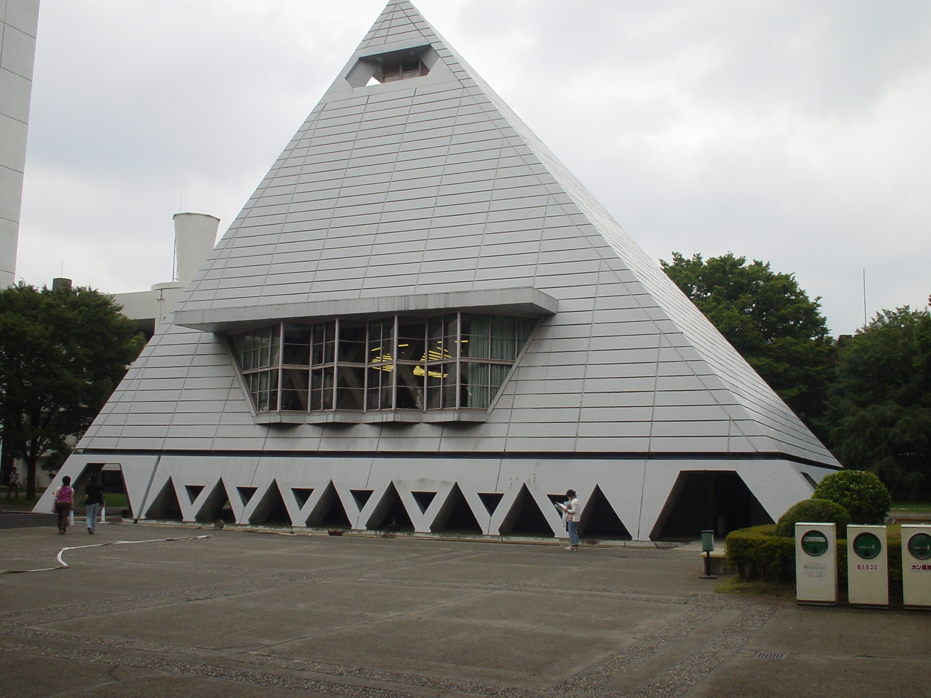 Central Lecture Room (Gakushūin University) It was built in 1960 and demolished in 2008.